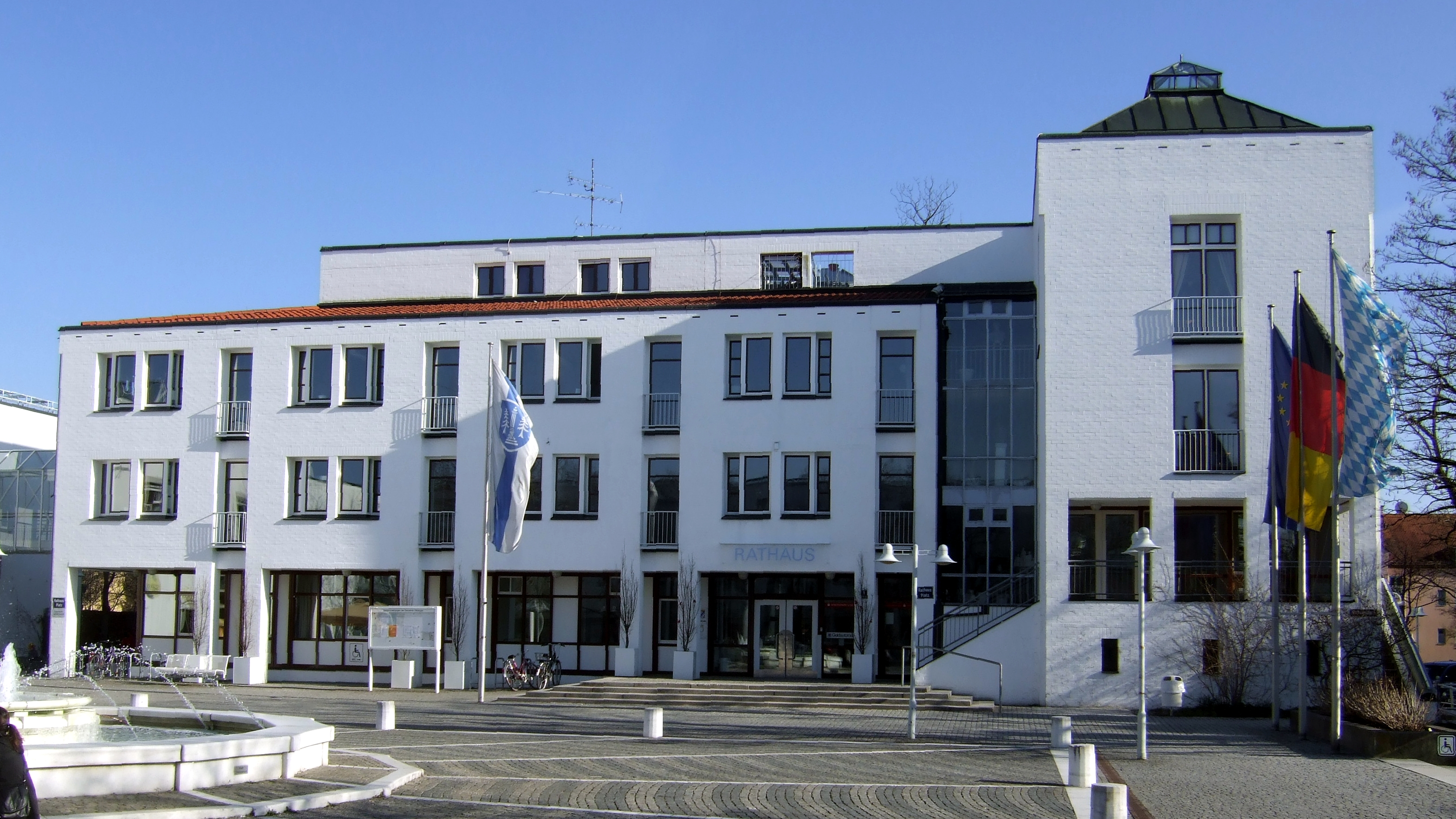 Ottobrunn: Town hall